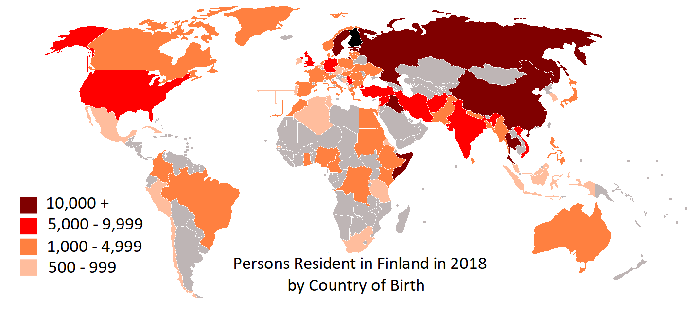 Country of birth of Finnish citizens and foreign residents in Finland, 2006. Persons born in countries since dissolved are enumerated in the largest successor state.